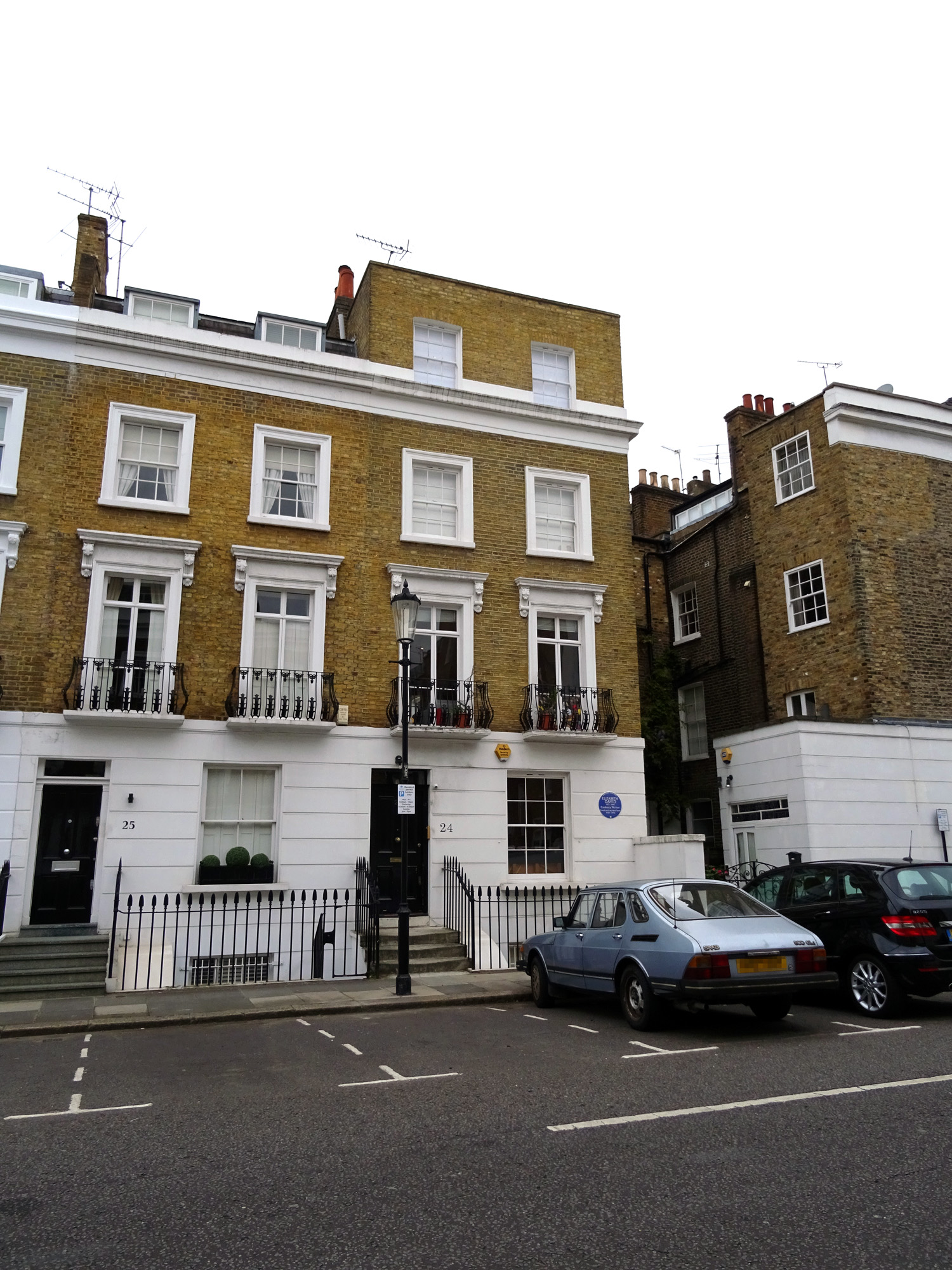 ELIZABETH DAVID 1913-1992 Cookery Writer lived and worked here 1947-1992 - 24 Halsey Street, Chelsea, London SW3 2PT